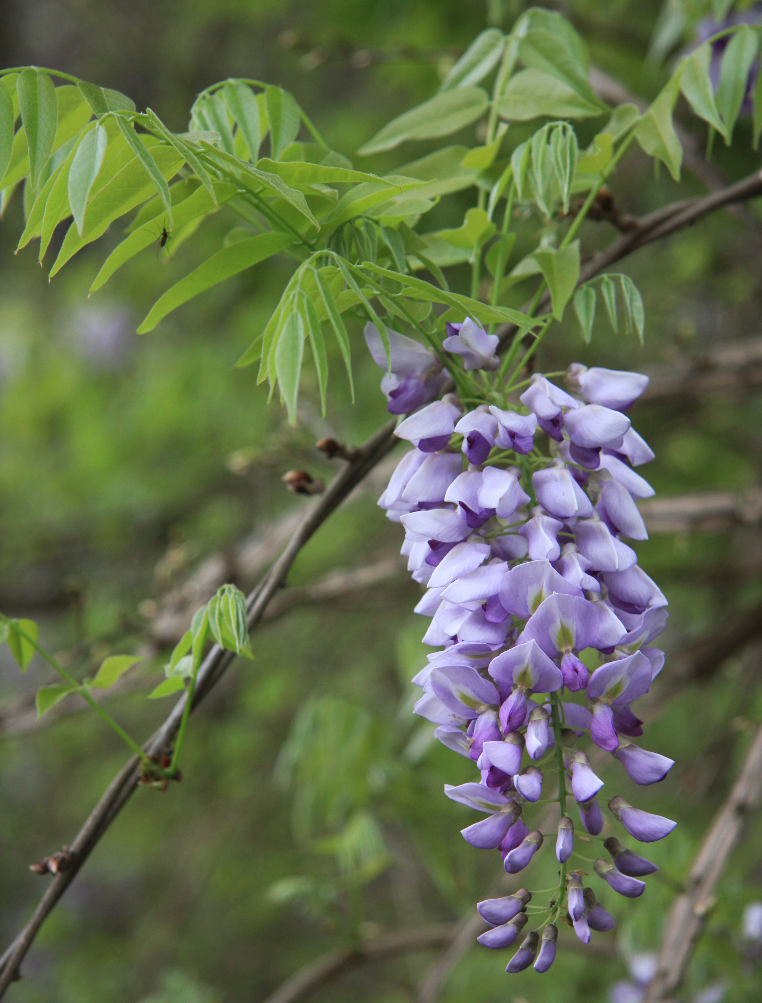 American wisteria (Wisteria frutescens) flower cluster with young leaves. Duke Forest Durham Division, Durham, North CarolinaUSA.